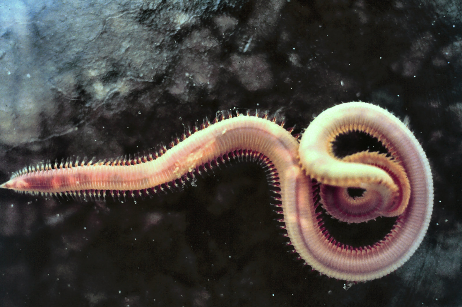 North Inlet - Winyah Bay National Estuarine Research Reserve. Polychaete worms like this bloodworm, Glycera sp., abound in salt marsh sediments. Some of these segmented worms are free living while others are tube builders. Image ID: nerr0328, NOAA National Estuarine Research Reserve Collection Location: Vicinity of Georgetown, South Carolina